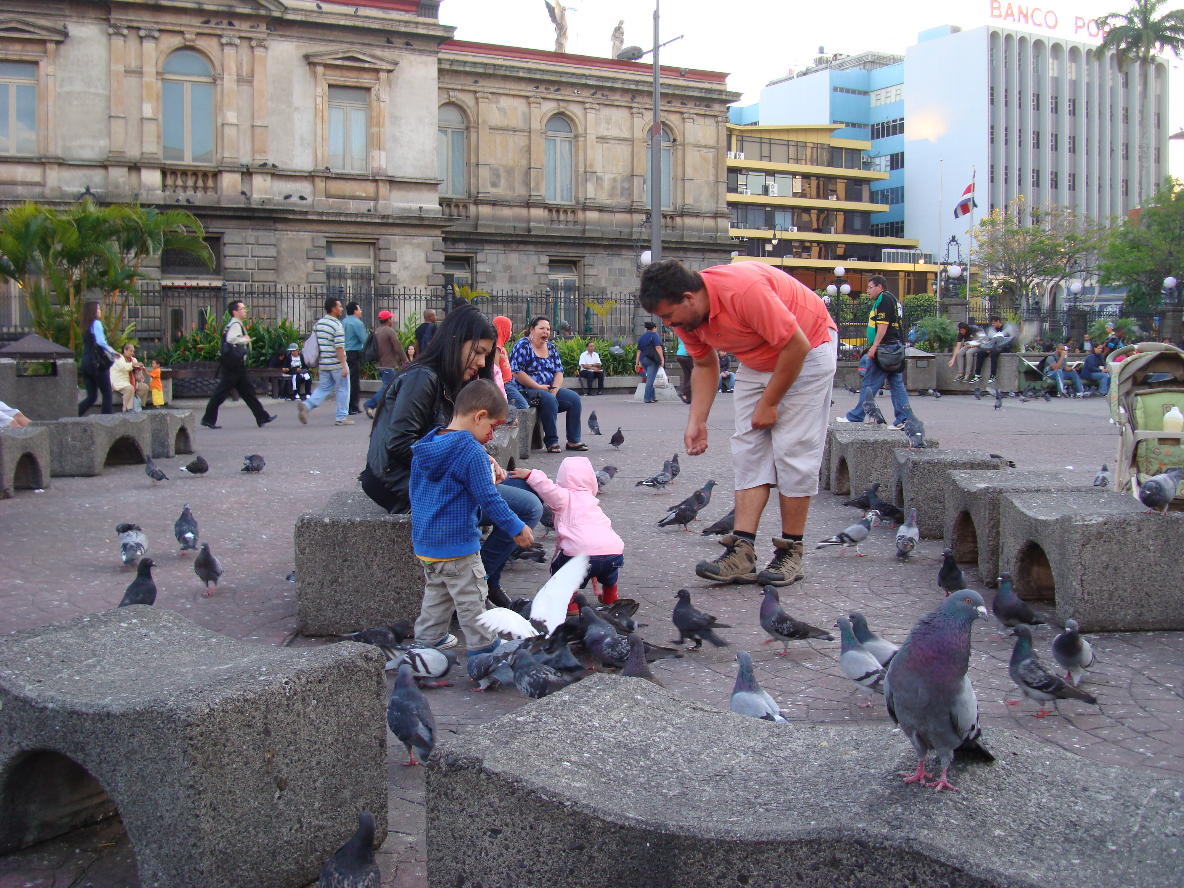 Plaza de la Central — in San José city, Costa Rica.